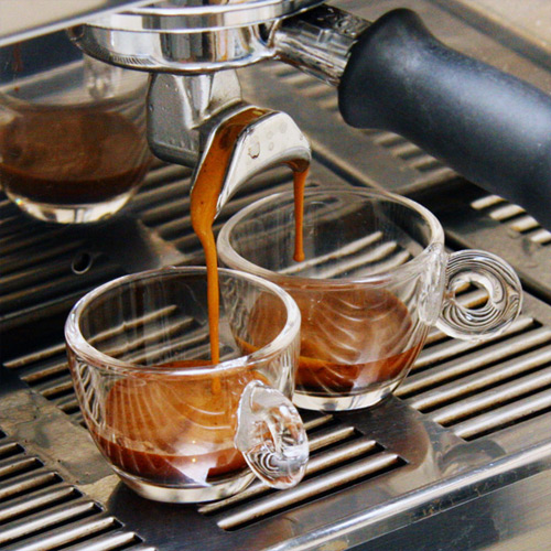 Image by Mark Prince, , 2006, rights released for wikipedia. Image can also be found at